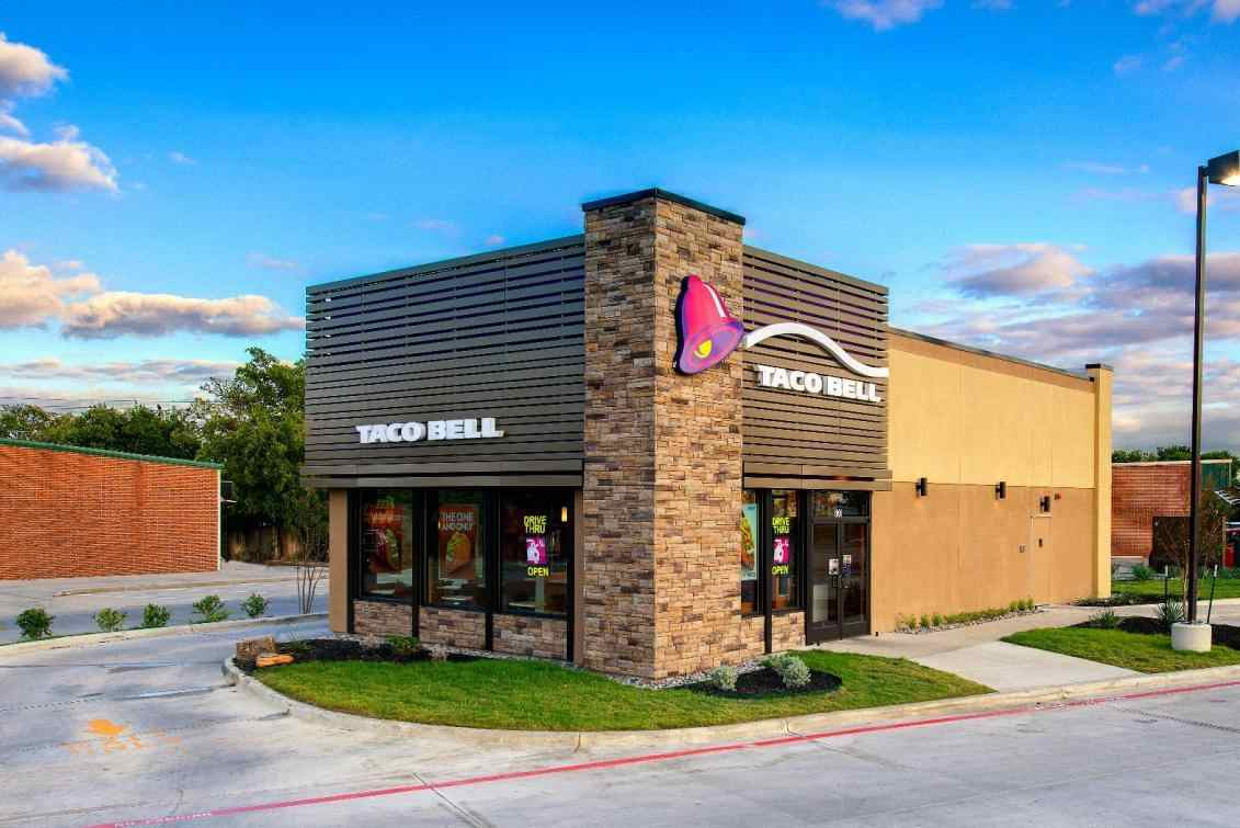 Taco Bell’s new store design as of 2013